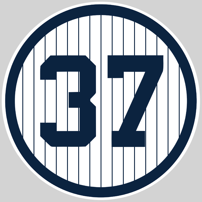 Image represents the current version of Casey Stengel's No. 37 seen in Monument Park in Yankee Stadium